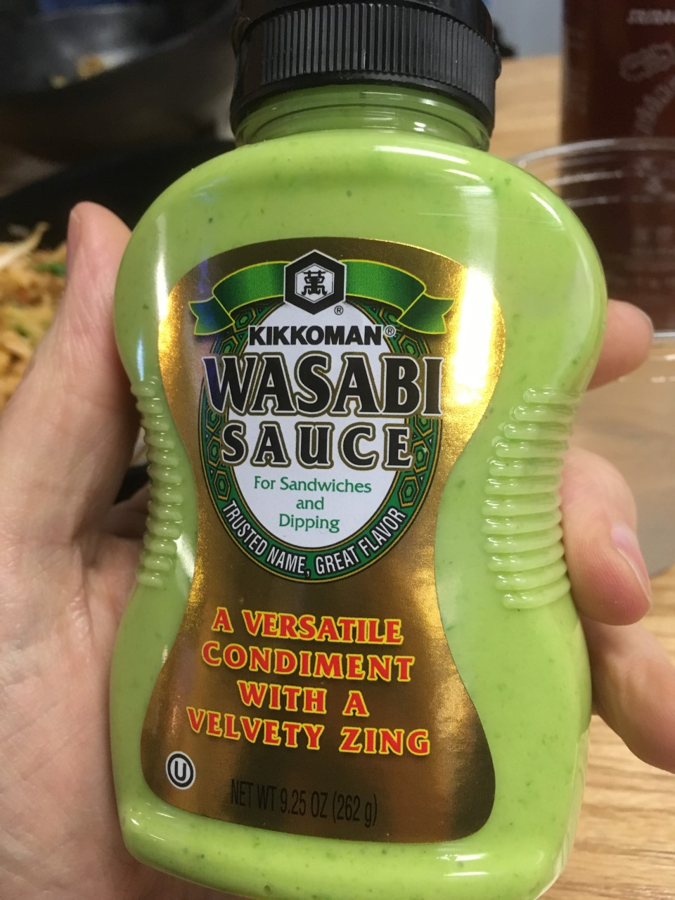 Plastic bottle of prepared wasabi sauce in USA, from Kikkoman